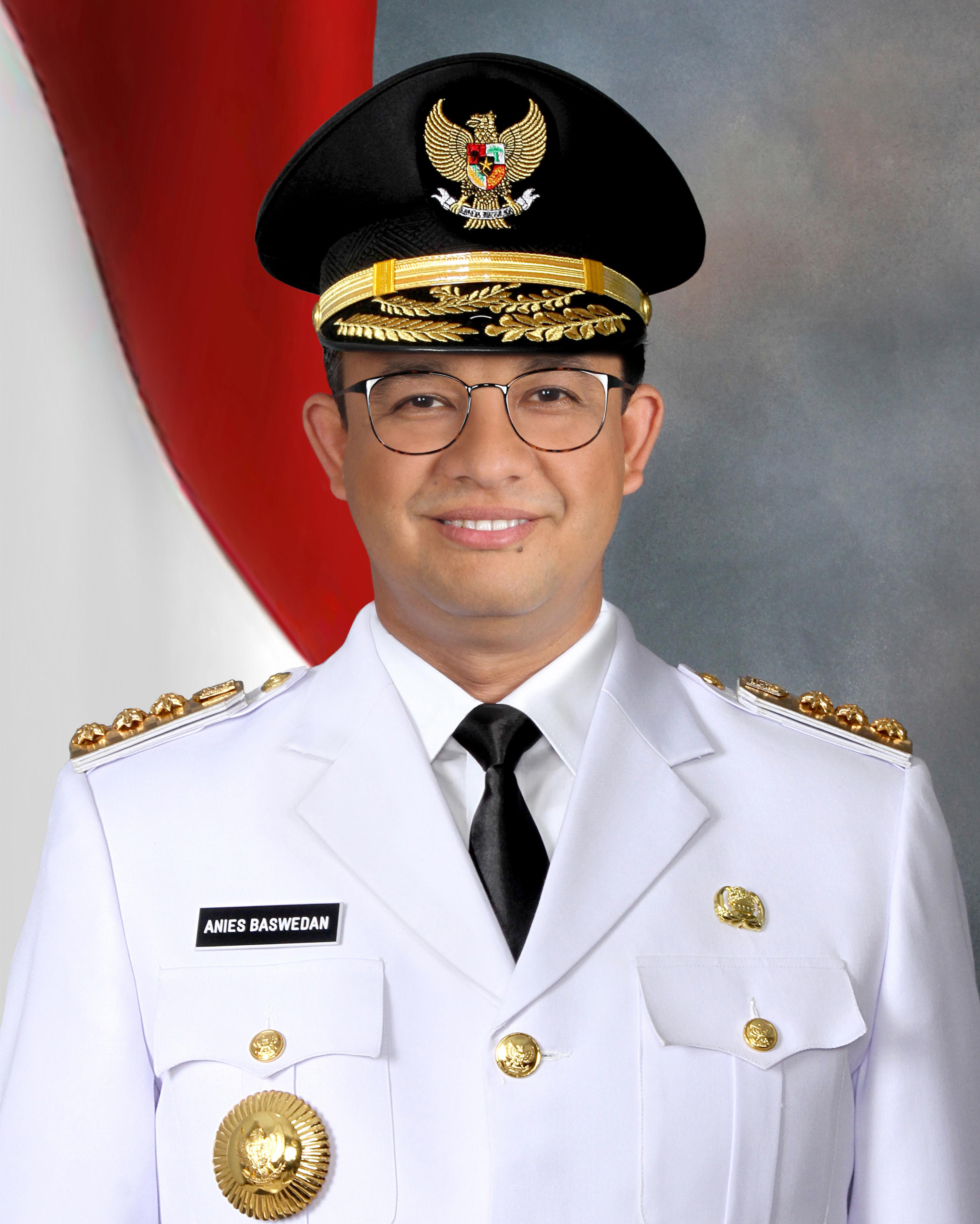 Official Portrait of Anies Baswedan as Governor Special Region Jakarta period 2017-2022